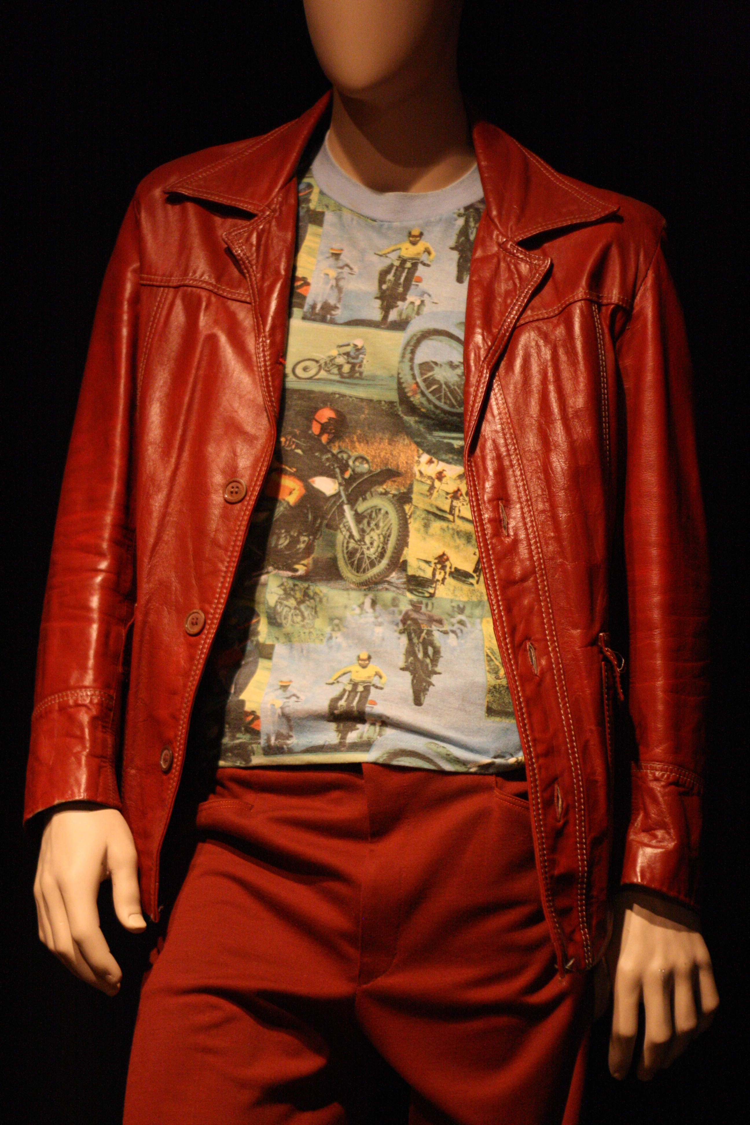 Costume worn by Brad Pitt as Tyler Durden in the film Fight Club displayed at the London Film Museum.